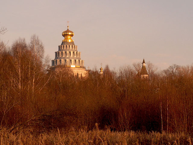 New Jerusalem Monastery